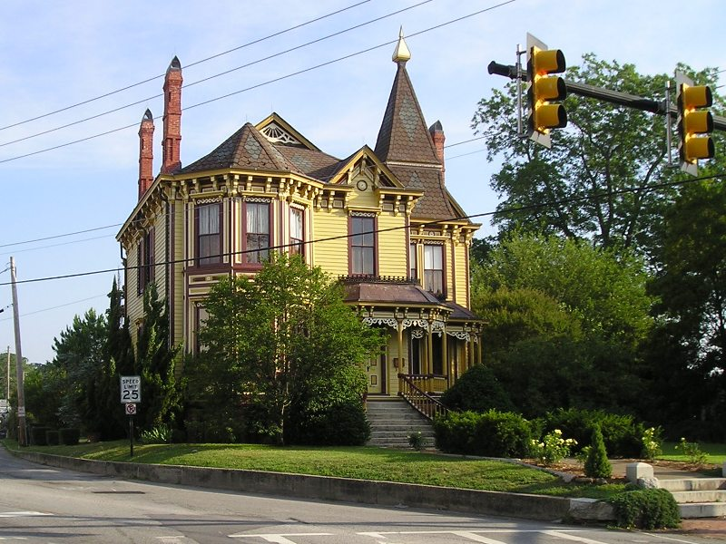 The Mansion on Main Street in Smithfield, Virginia.